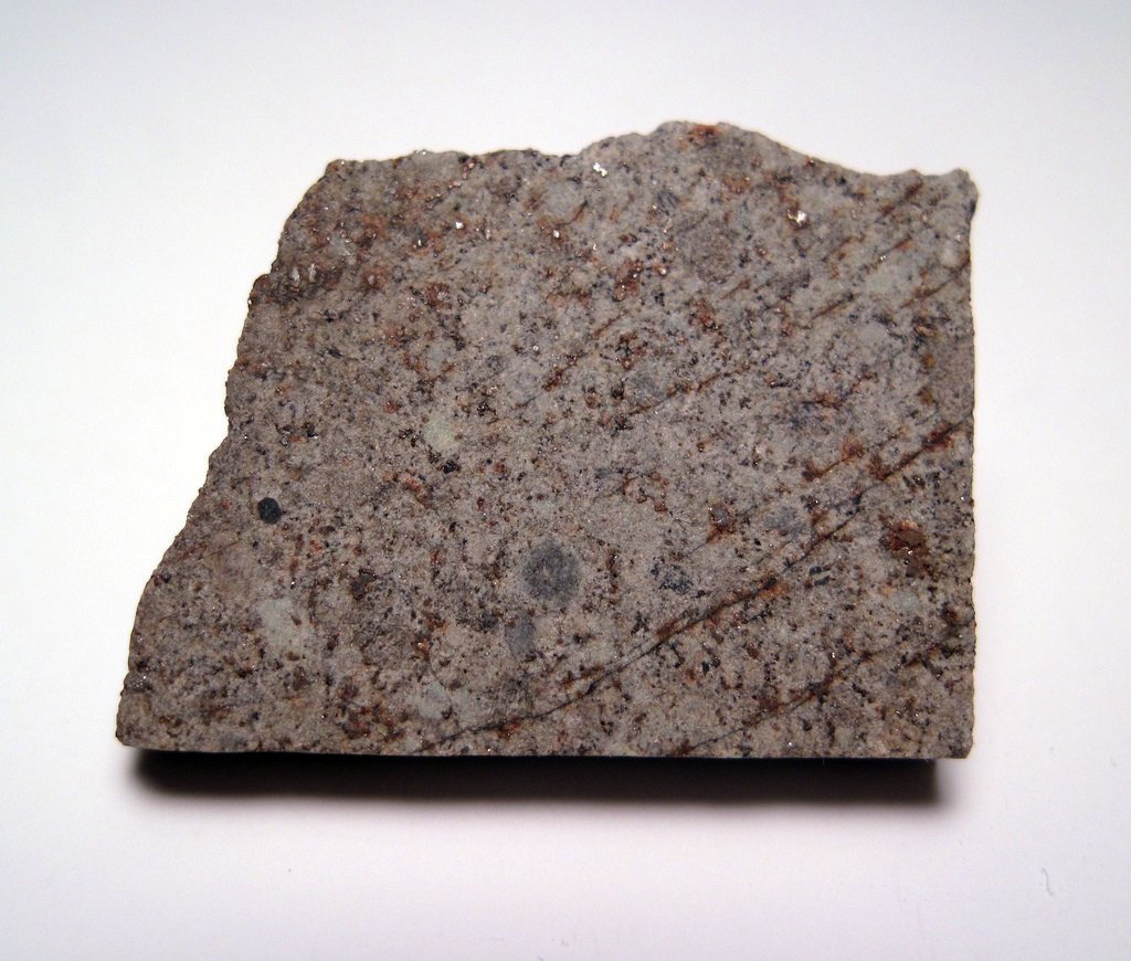 A partial slice from Peace River meteorite, fallen on March 31, 1963.